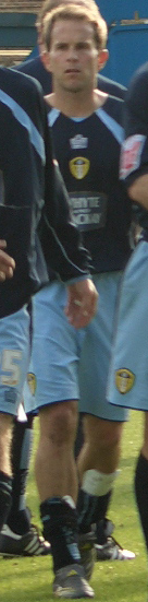 Eddie Lewis. Image cropped from original at flickr.